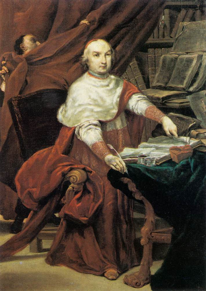 Portrait of Cardinal Prospero Lambertini, later pope Benedictus XIV.